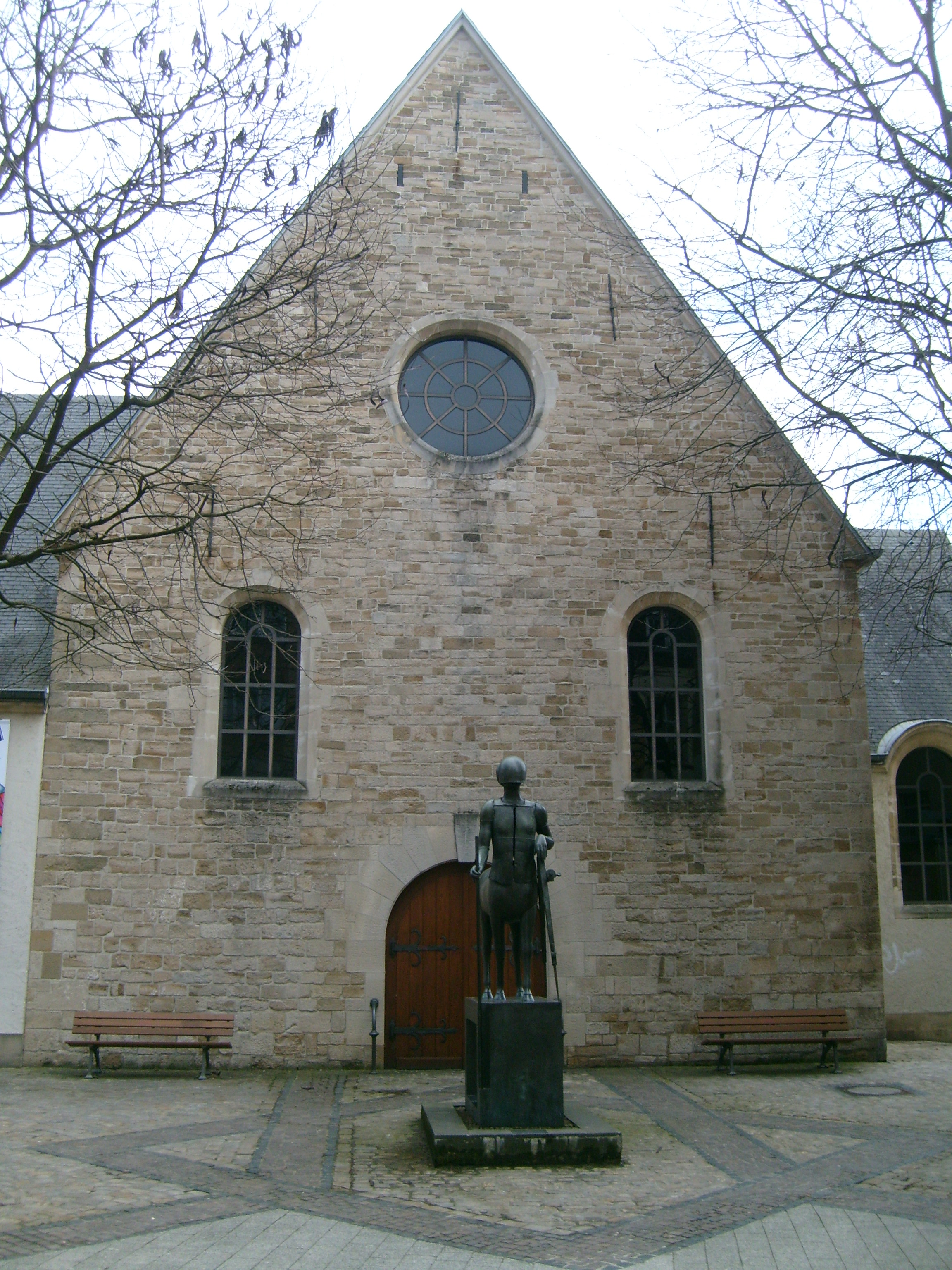 The theater "Théâtre des capucins" in the "rue des capucins" in Luxembourg-city.